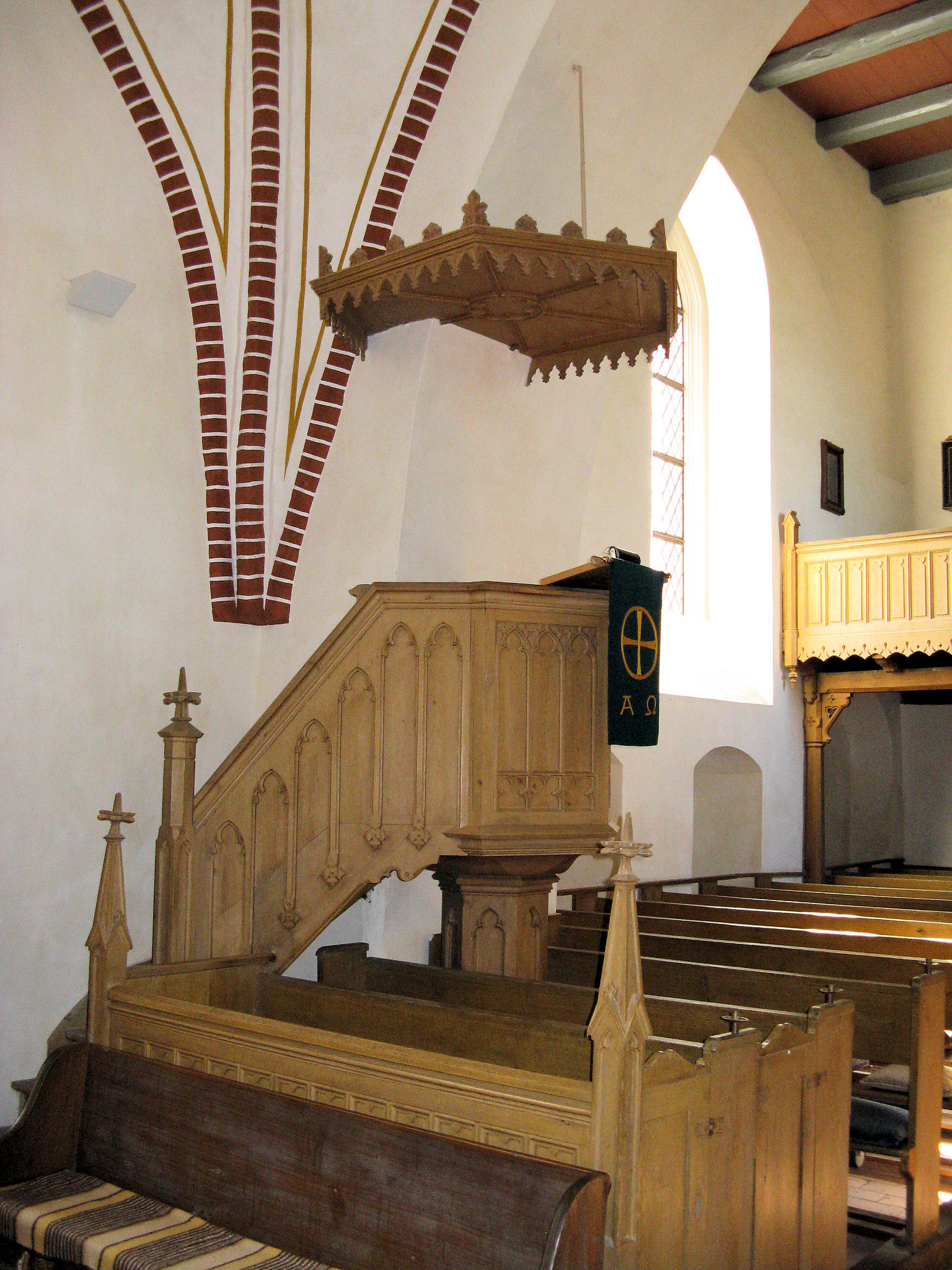 pulpit in the church in Hohen Mistorf, disctrict Güstrow, Mecklenburg-Vorpommern, Germany